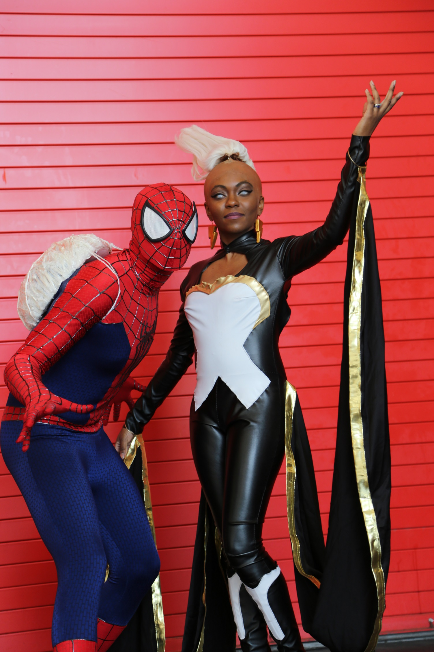 Cosplay at Special Edition: NYC in 2014.